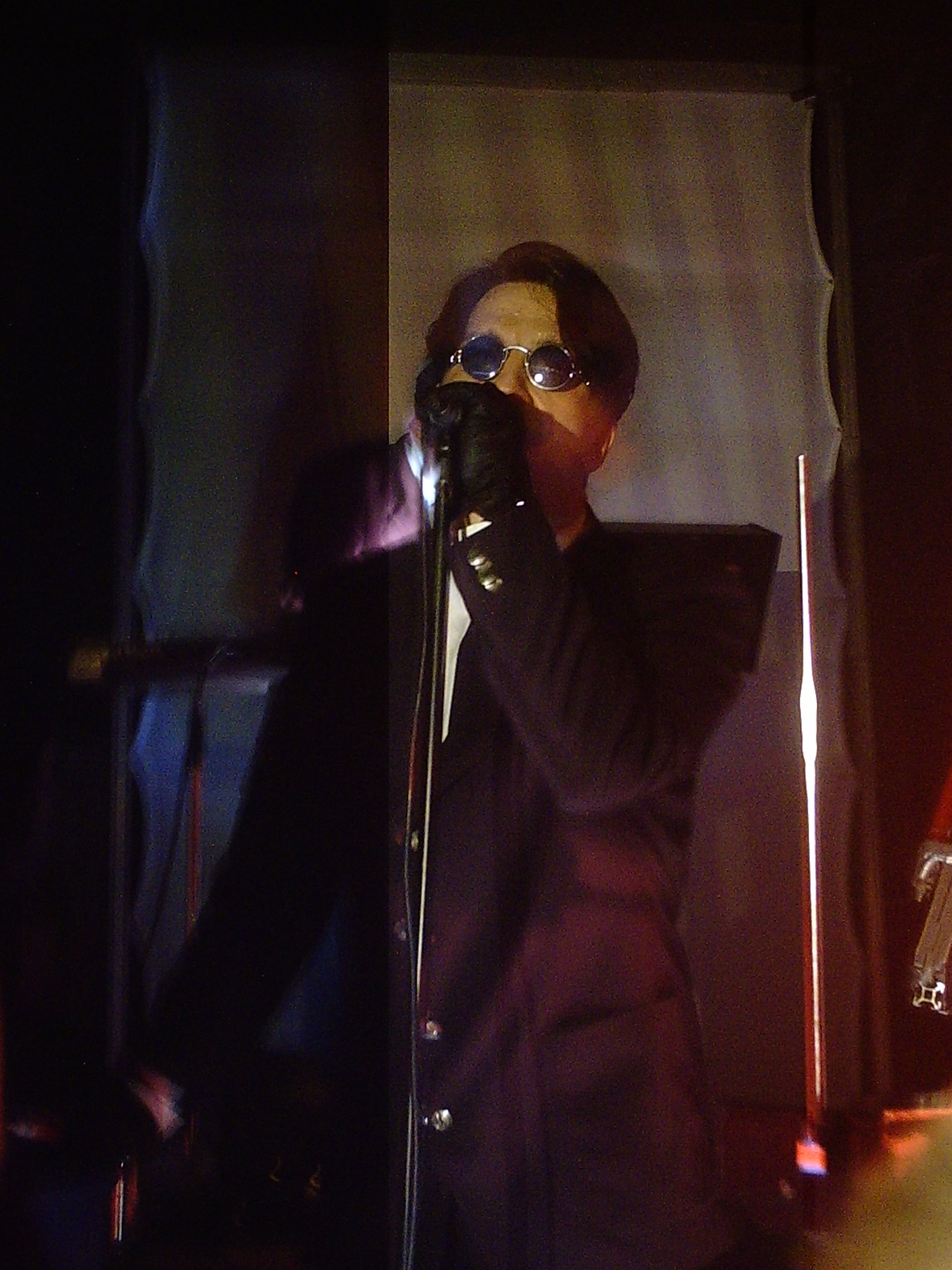 Bandphoto